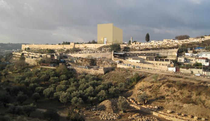 Imaginary picture of Temple according to the measurements of the Mishnah. This is the view the priest had as he sprinkled the blood of the Red Heifer (Num 19,4) towards the temple's entrance. His view went directly over Golgotha.